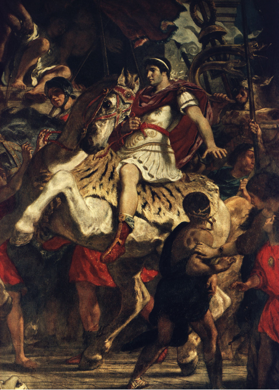 Fragment of The Justice of Trajan (La justice de Trajan)